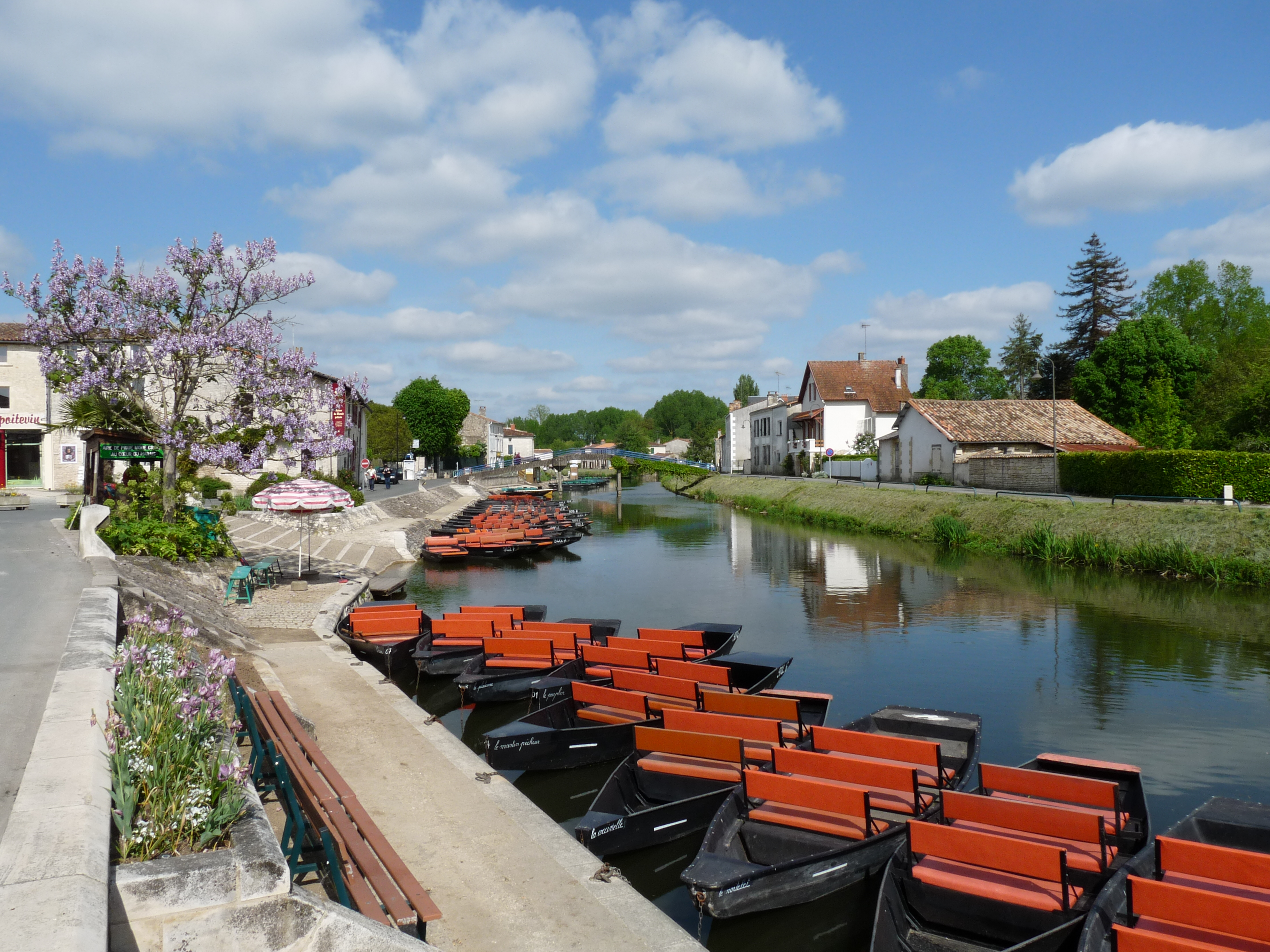 Quay Louis Tardy in Coulon (Deux-Sèvres)